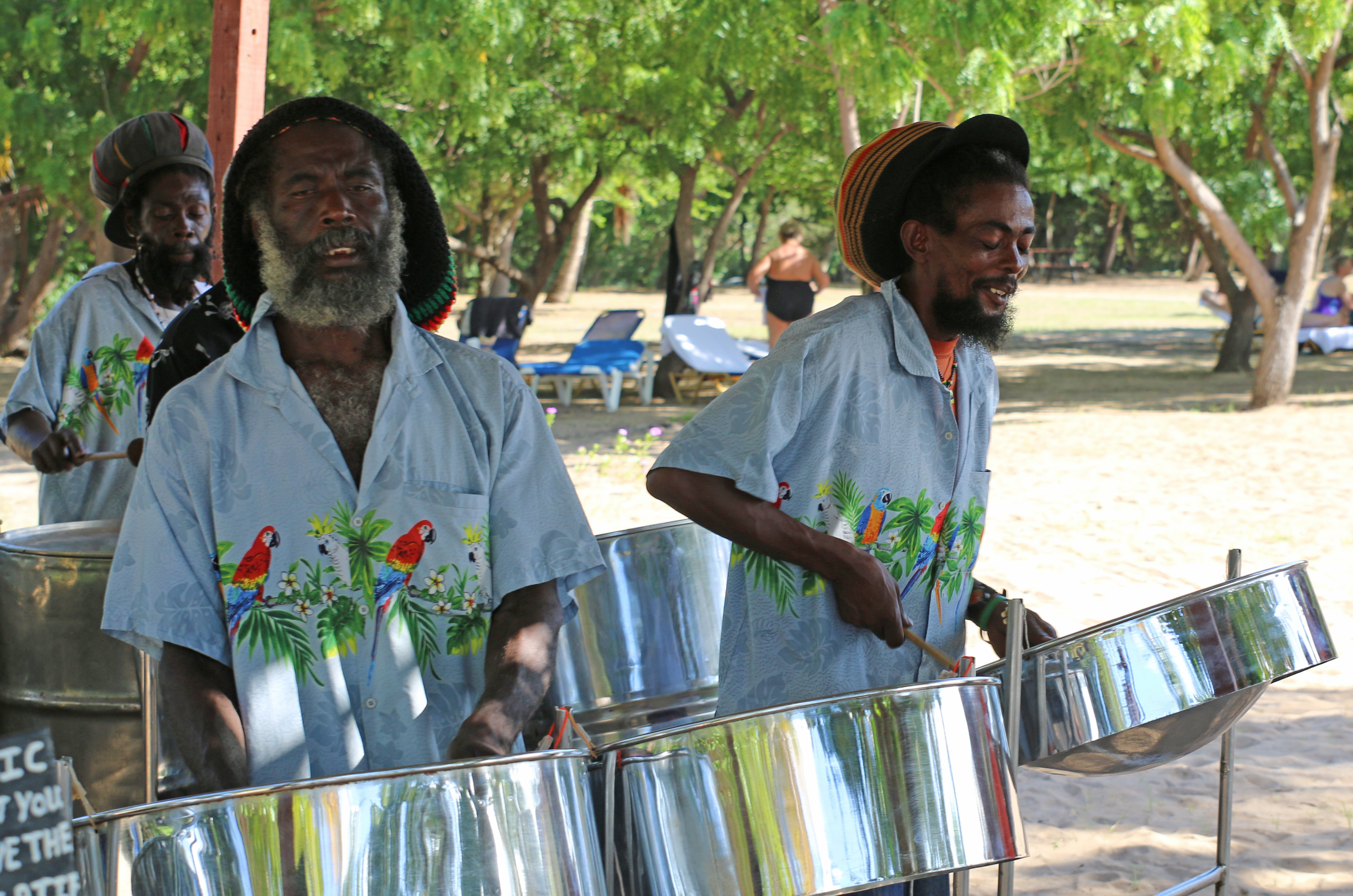 Caribbean steel band